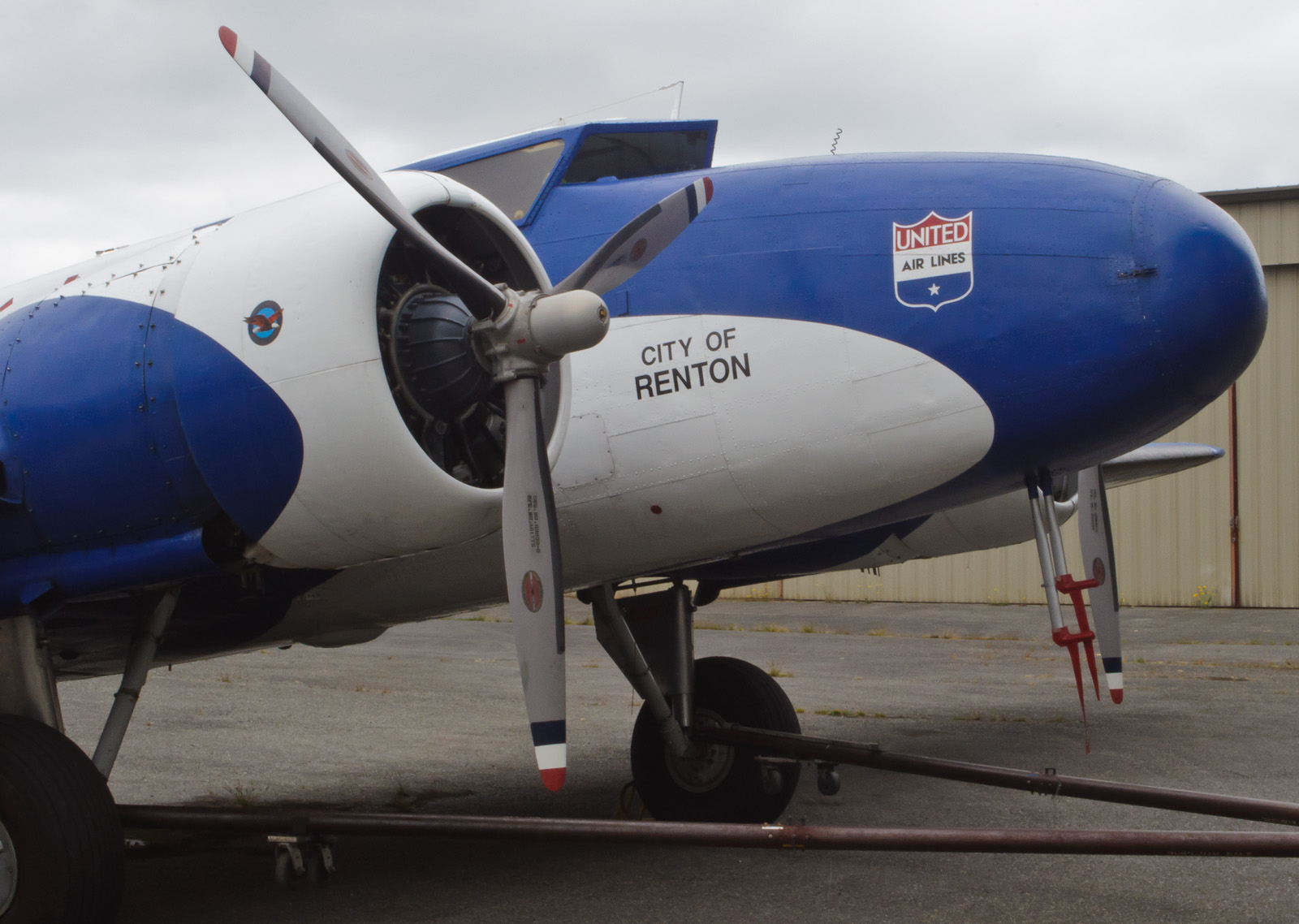 The 247 was Boeing's first all-metal airliner. Boeing built the first 60 exclusively for its in-house airline, United Airlines. Competing TWA wanted to order the 247 as well, but due to Boeing keeping the aircraft for itself, ended up asking Douglas to design its own airliner, and the DC-3, as a result, enjoyed far more success. Such predatory behavior by Boeing, which included United Aircraft Corporation (United Technologies, of which engine manufacturer Pratt & Whitney is a part) as well as United Airlines, forced the US government to respond with the Air Mail Act of 1934, forbidding aircraft manufacturers from owning airlines. United Technologies and United Airlines were divested from Boeing soon thereafter, and Boeing founder William Boeing left the company as a result, though Boeing, Pratt & Whitney, and United have maintained a close working relationship through today. The forward-slanted windshield is a key feature of early 247s, to prevent instrument panel lighting glares. A side effect was glares from ground lights, and eventually the windshield was changed to the typical rear-slanted design, and the dashboard redesigned with a top flap to eliminate glare. This aircraft belongs to the Museum of Flight in Seattle, and is parked at its restoration center at Paine Field in Everett. It is the last Boeing 247 in flying condition. NC13347 "City of Renton," Boeing 247D